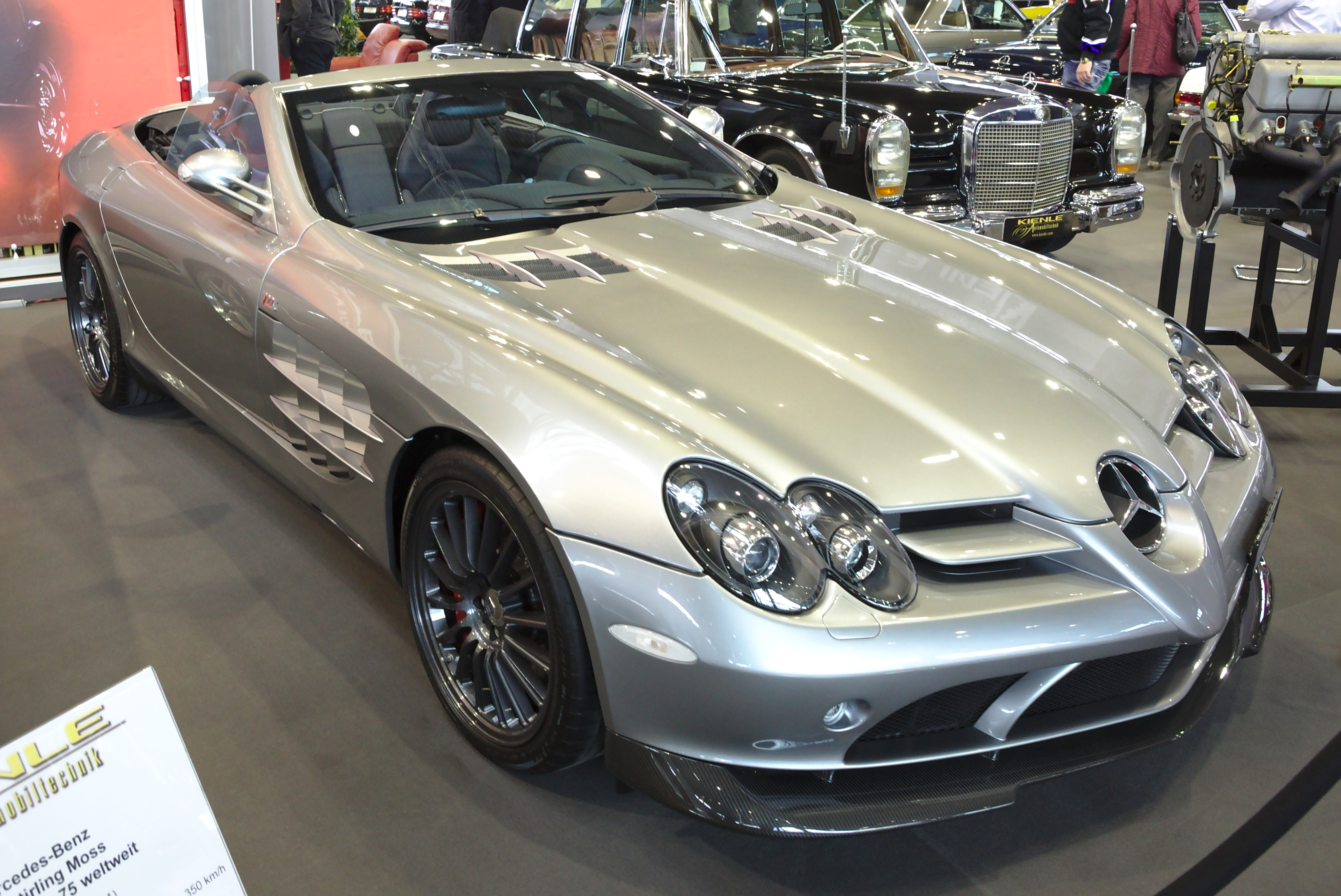 Mercedes-Benz SLR 722 Roadster at Retro Classics 2019